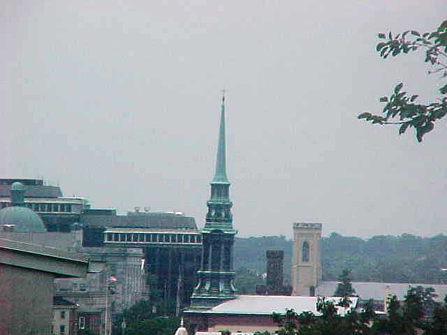 The downtown portion of the city of Norristown, Pennsylvania in March 2006.